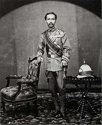 HM King Rama V at the beginning of his reign